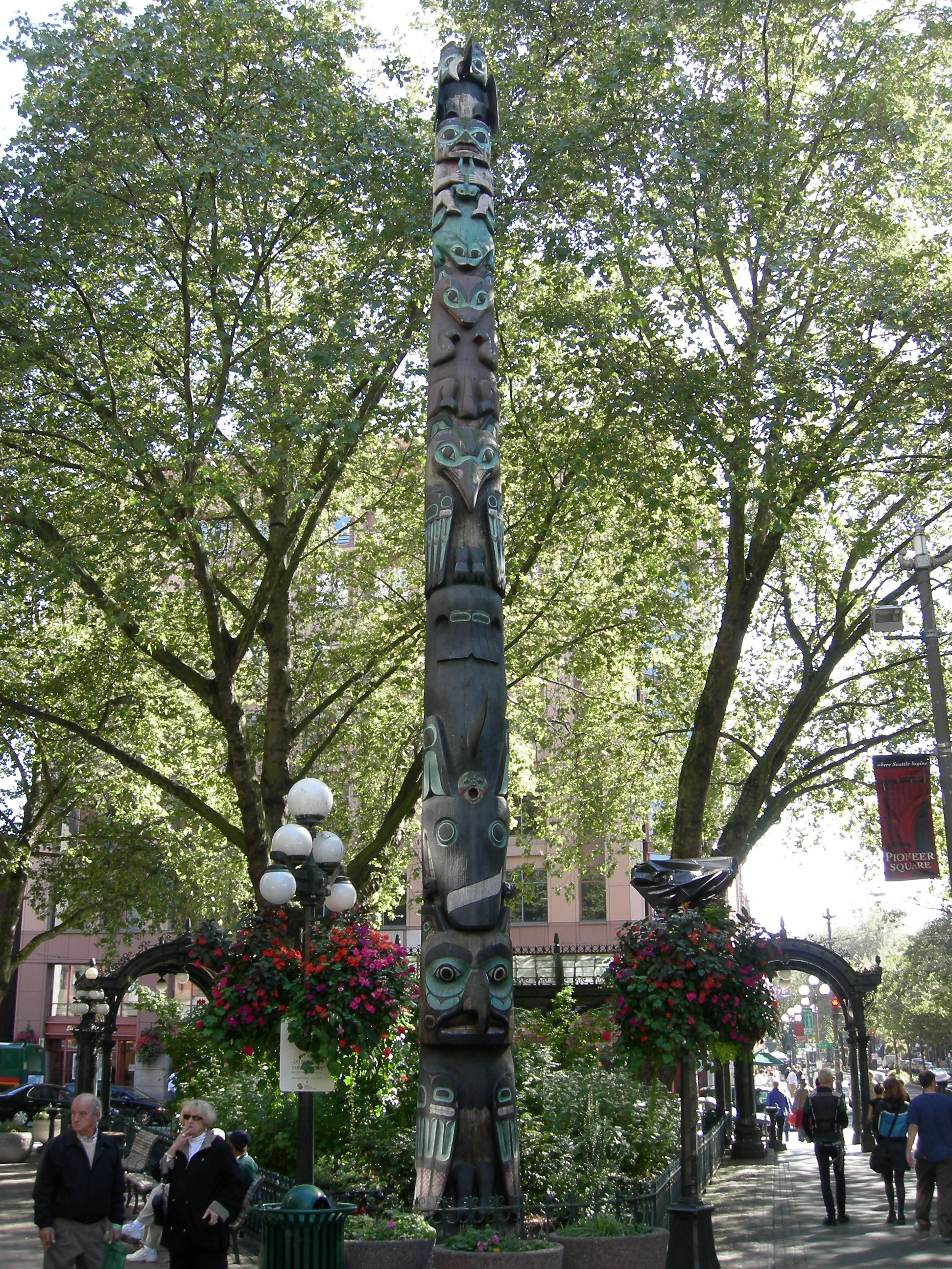 Totem pole, Pioneer Square, Seattle, Washington, USA. Listed, along with the Pioneer Building and Iron Pergola, on the National Register of Historic Places, ID #77001340. There is also a broader inclusion for the Pioneer Square - Skid Row Historical District. This is a 1930s replica of the original Pioneer Square totem pole, which was damaged by arson. It is carved by descendants of the original carvers. [1]